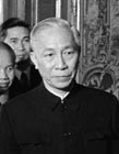 Lê Ðức Thọ: Member of Politburo of the Communist Party of Vietnam